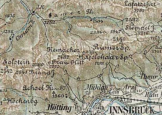 3rd Military Mapping Survey of Austria-Hungary - Innsbruck; detail: Nordkette und Samerthal